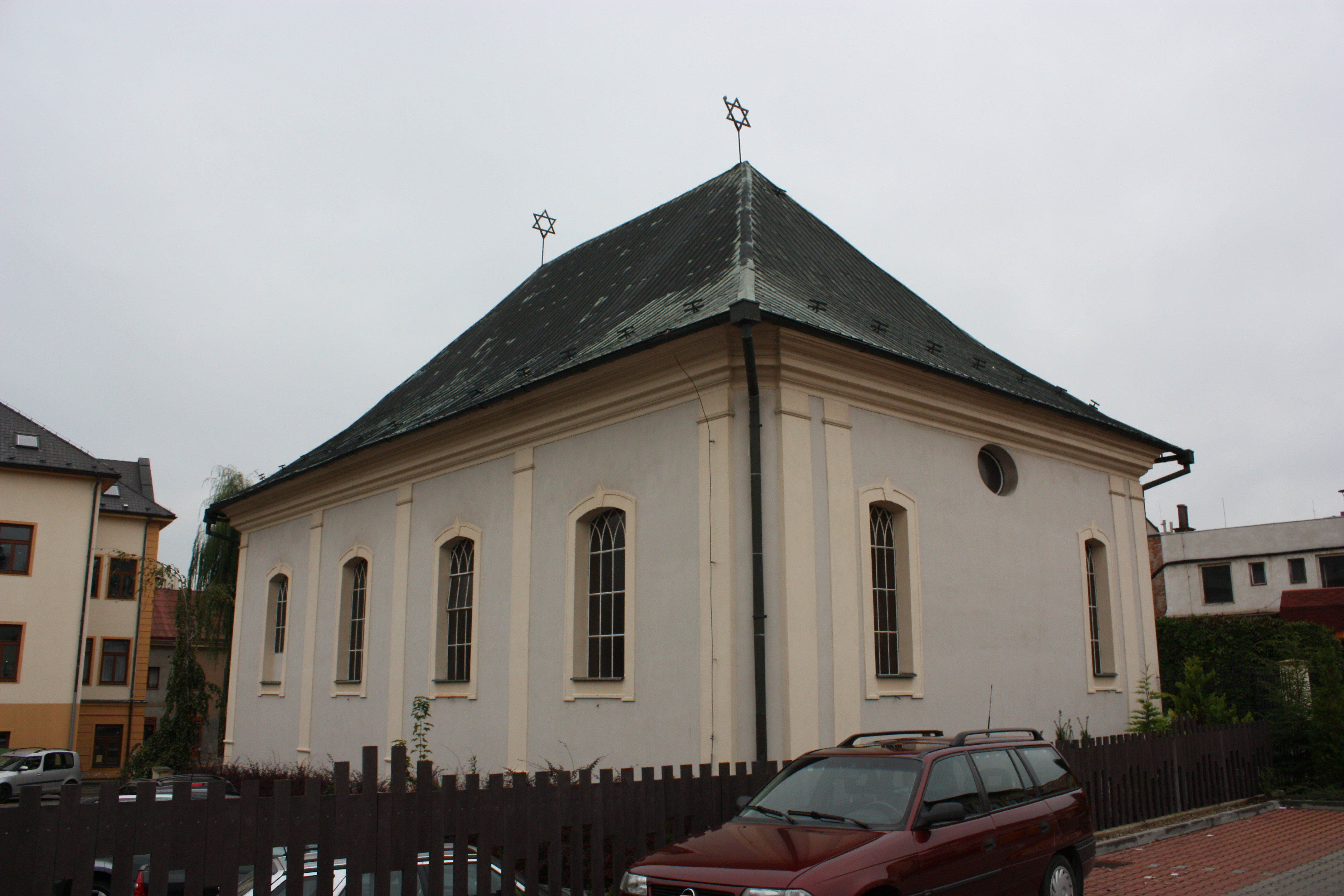 Synagogue in Rychnov nad Kněžnou, nowadays Regional Jewish Museum and Karel Poláček's Memorial